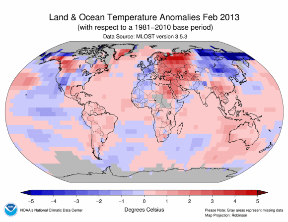 Land and ocean temperature anomalies in February 2013 with respect to a 1981-2010 base period. Grey areas represent missing data.